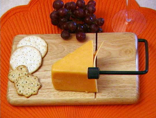 Prodyne Gourmet Cheese Slicer board with cutting wire. Taken in Sheboygan, WI by Mary Lisa Tanck, CheeseSlicing, LLC. Available at